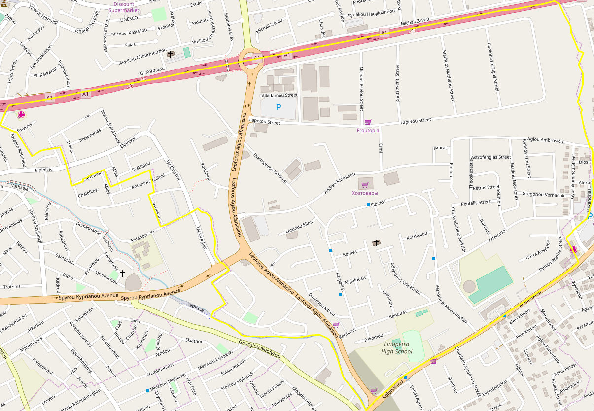 Map of Ayios Stylianos (Agios Athanasios).